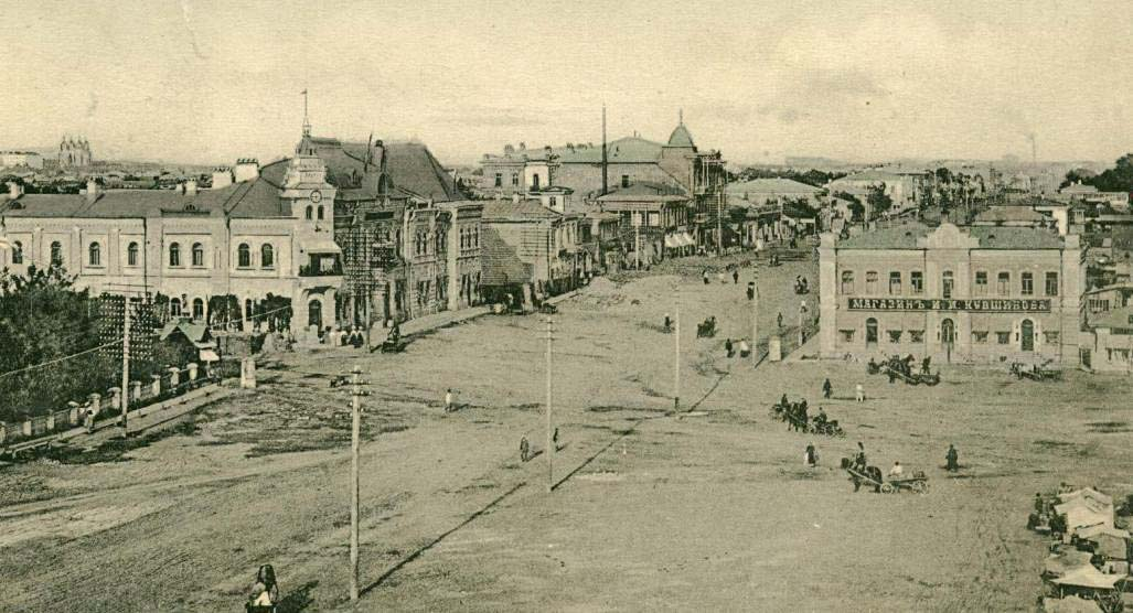 Bolshaya street and the trade area in late 20-th century